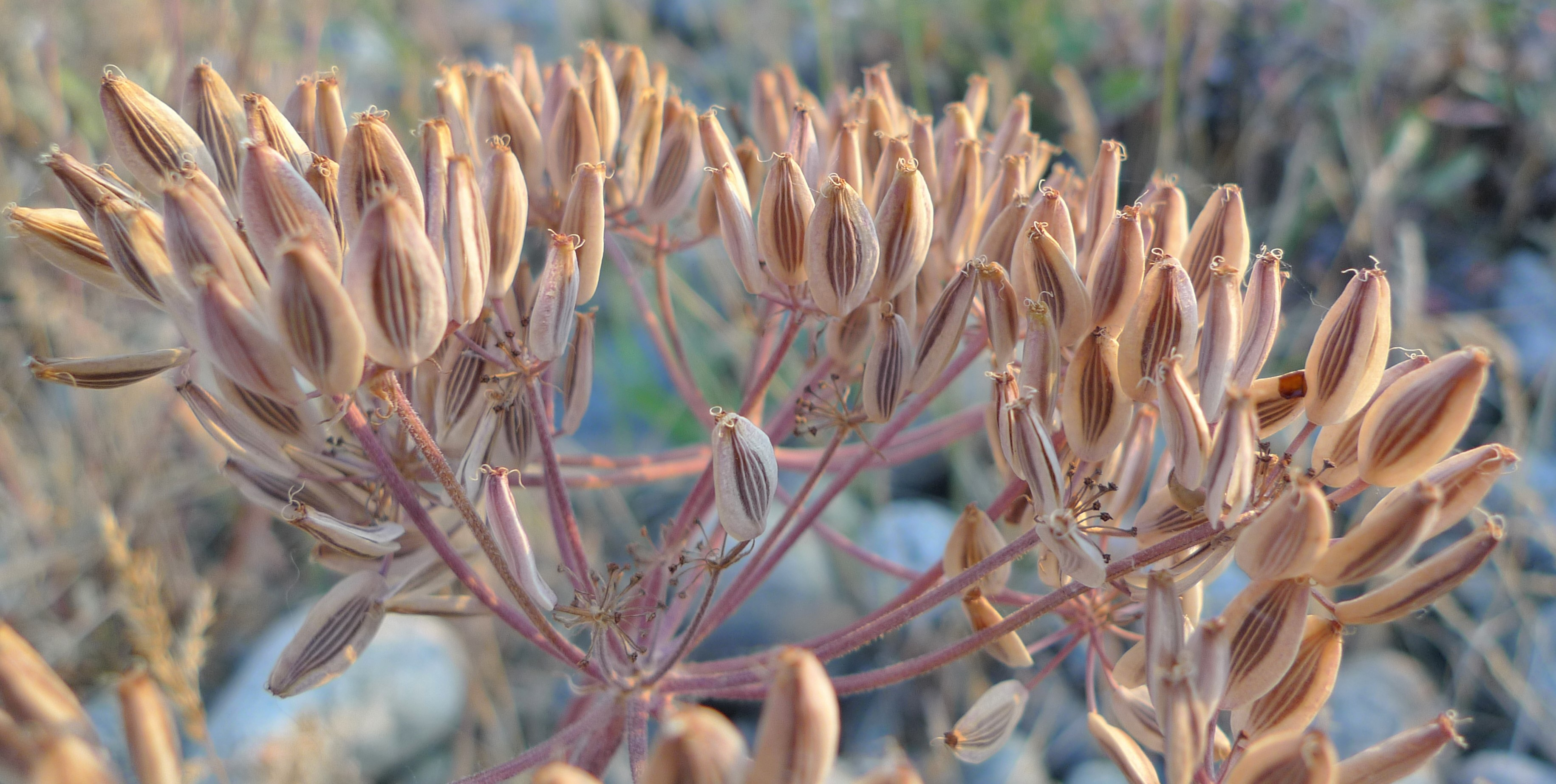 Lomatium macrocarpum near the Columbia River in East Wenatchee, Douglas County Washington